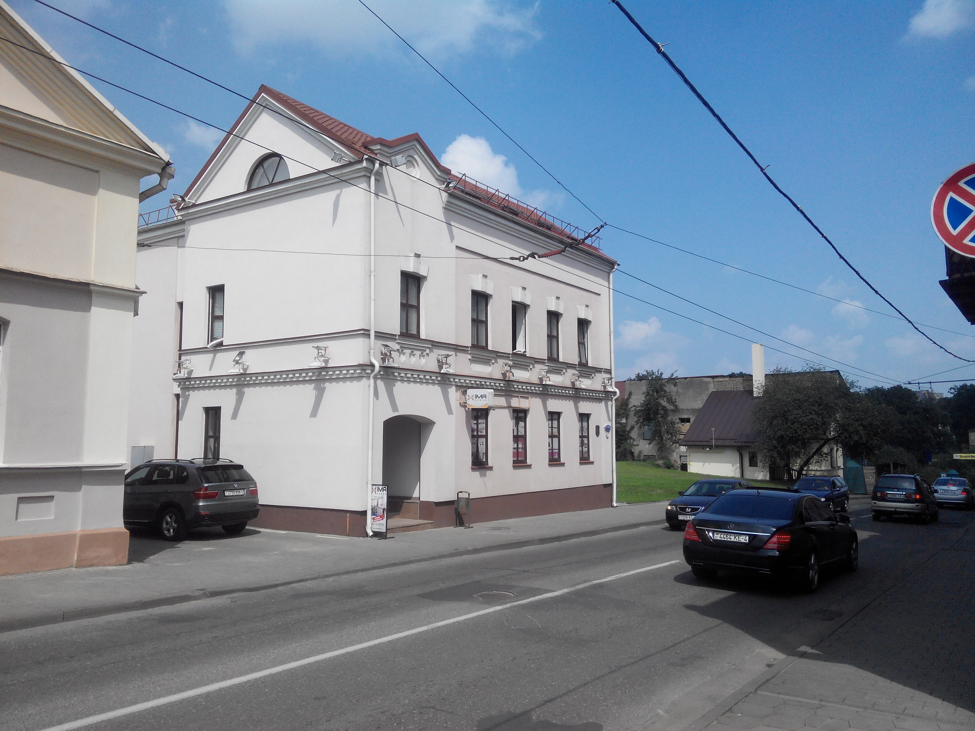 The building on Bolshaya Troitskaya, 11, Grodno, Belarus